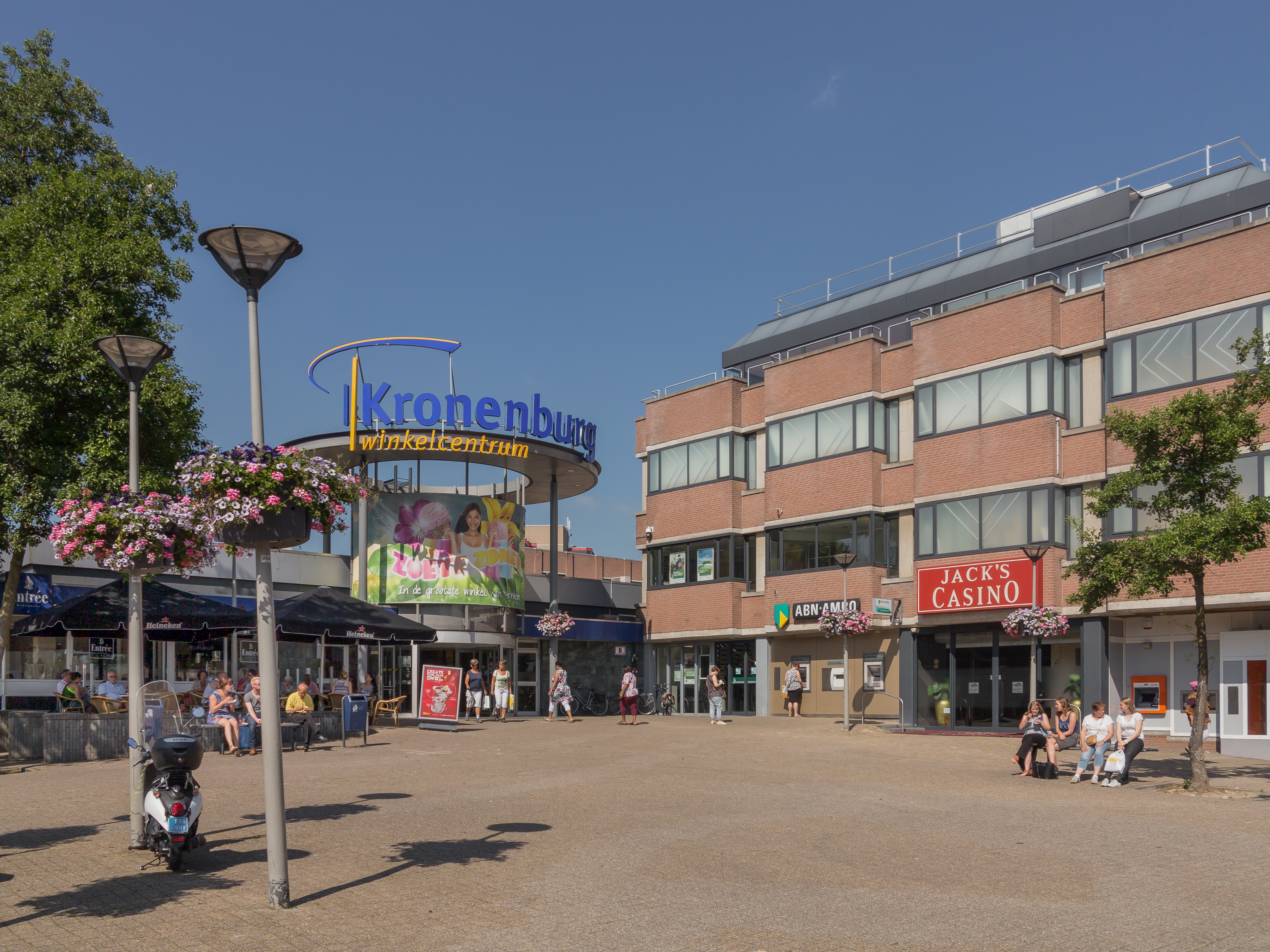 Arnhem-Kronenburg, shopping mall Kronenburg